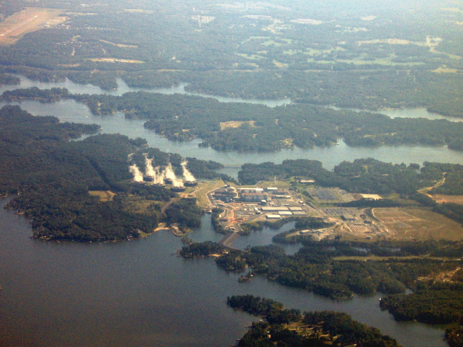 Catawba Nuclear Power Plant near Charlotte, NC.